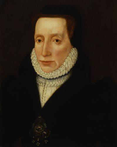 An unknown woman, possibly Margaret Douglas, Countess of Lennox (1515–1578.)